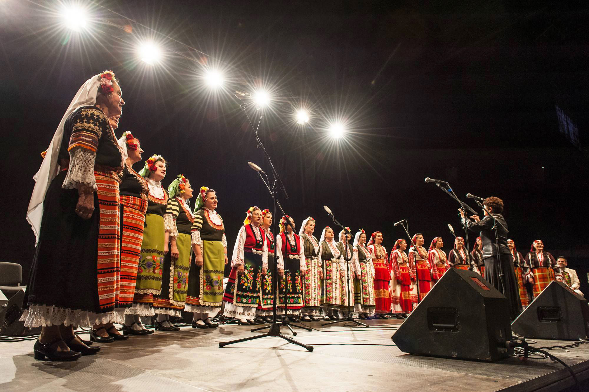 Bulgarian State Television Female Vocal Choir, photo from the first row at a concert